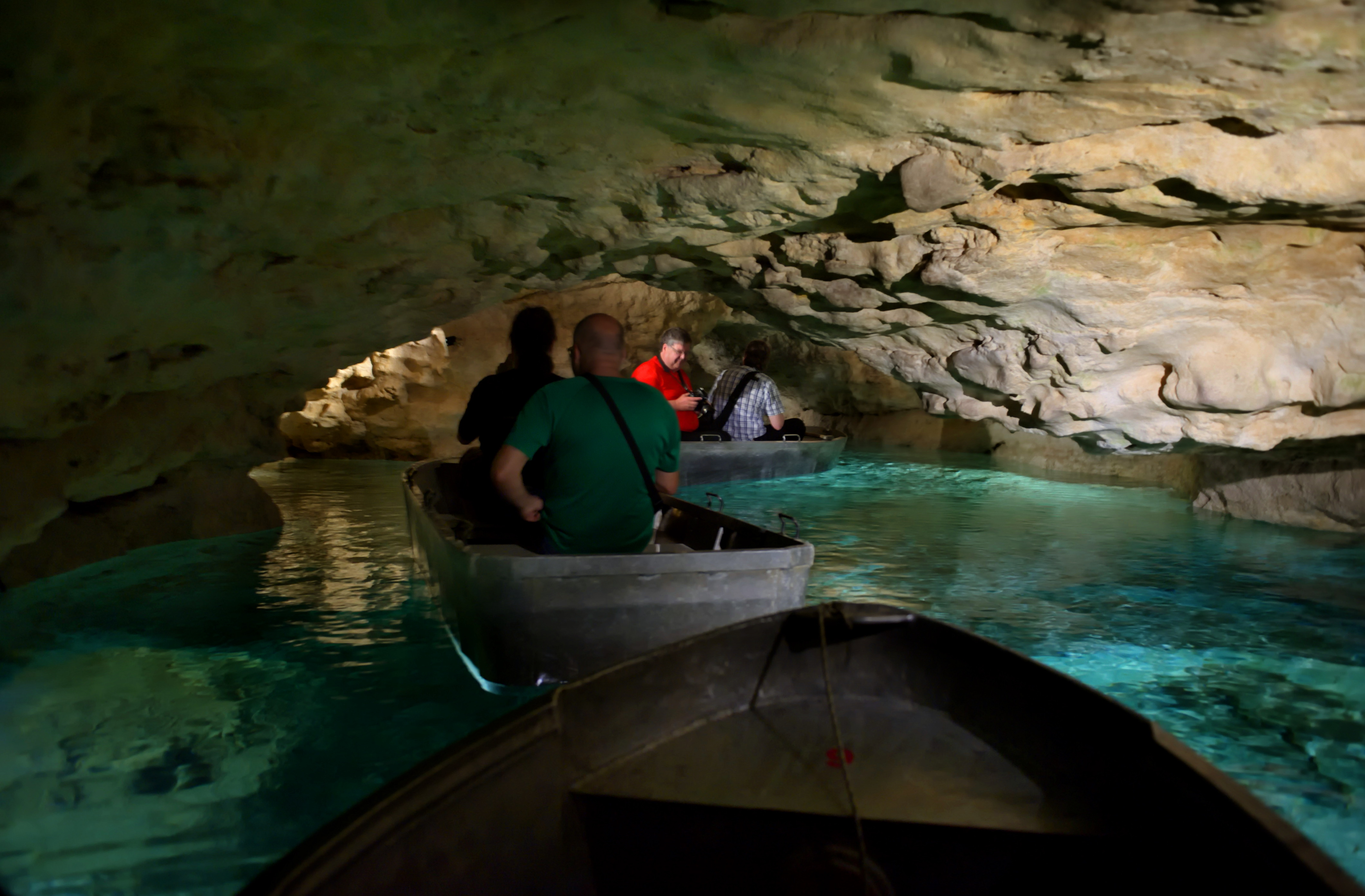 Tapolca Beach